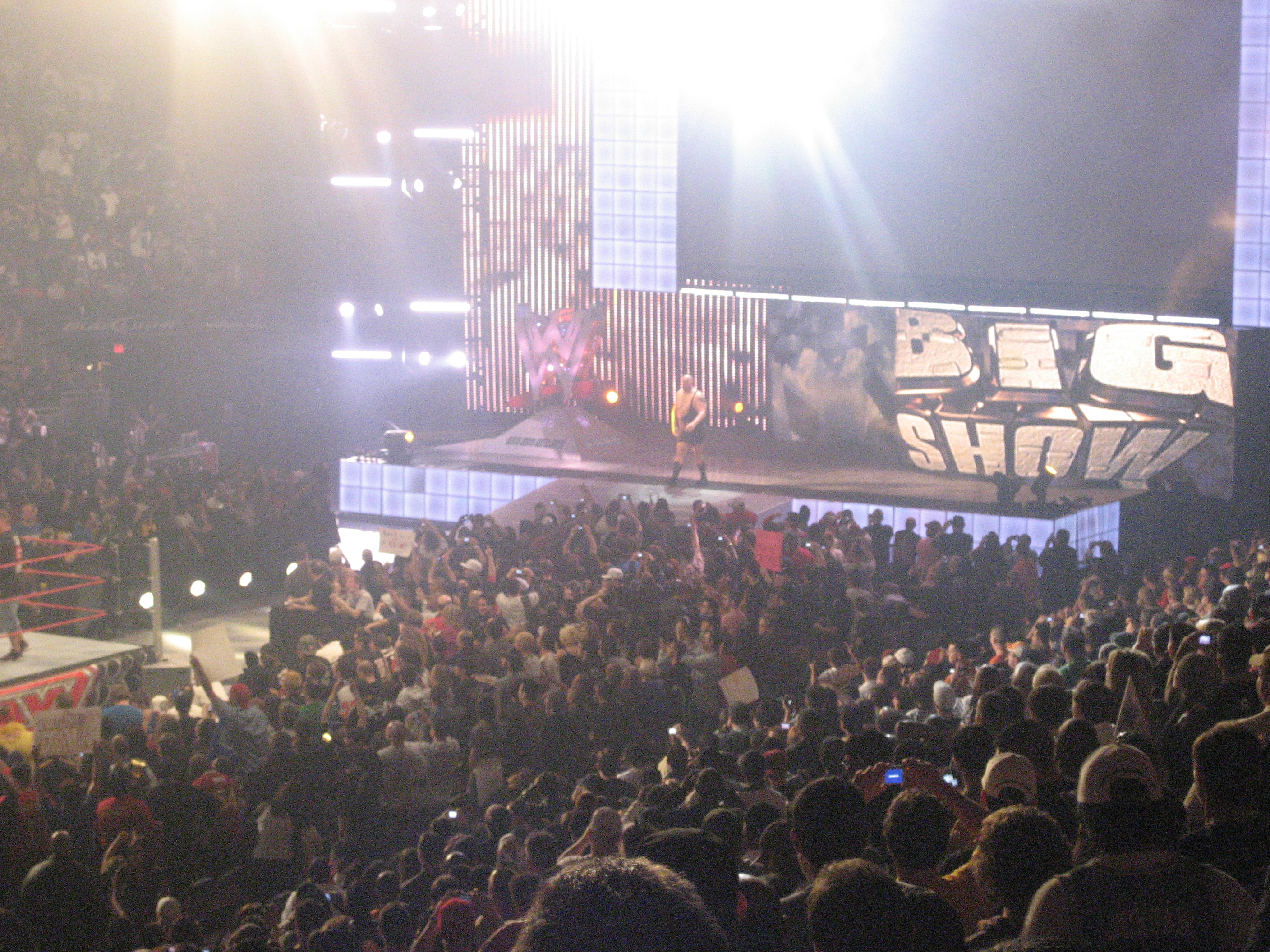 Monday Night Raw